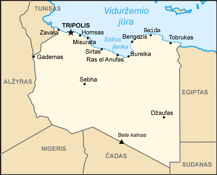 CIA map of Libya (Lithuanian version)